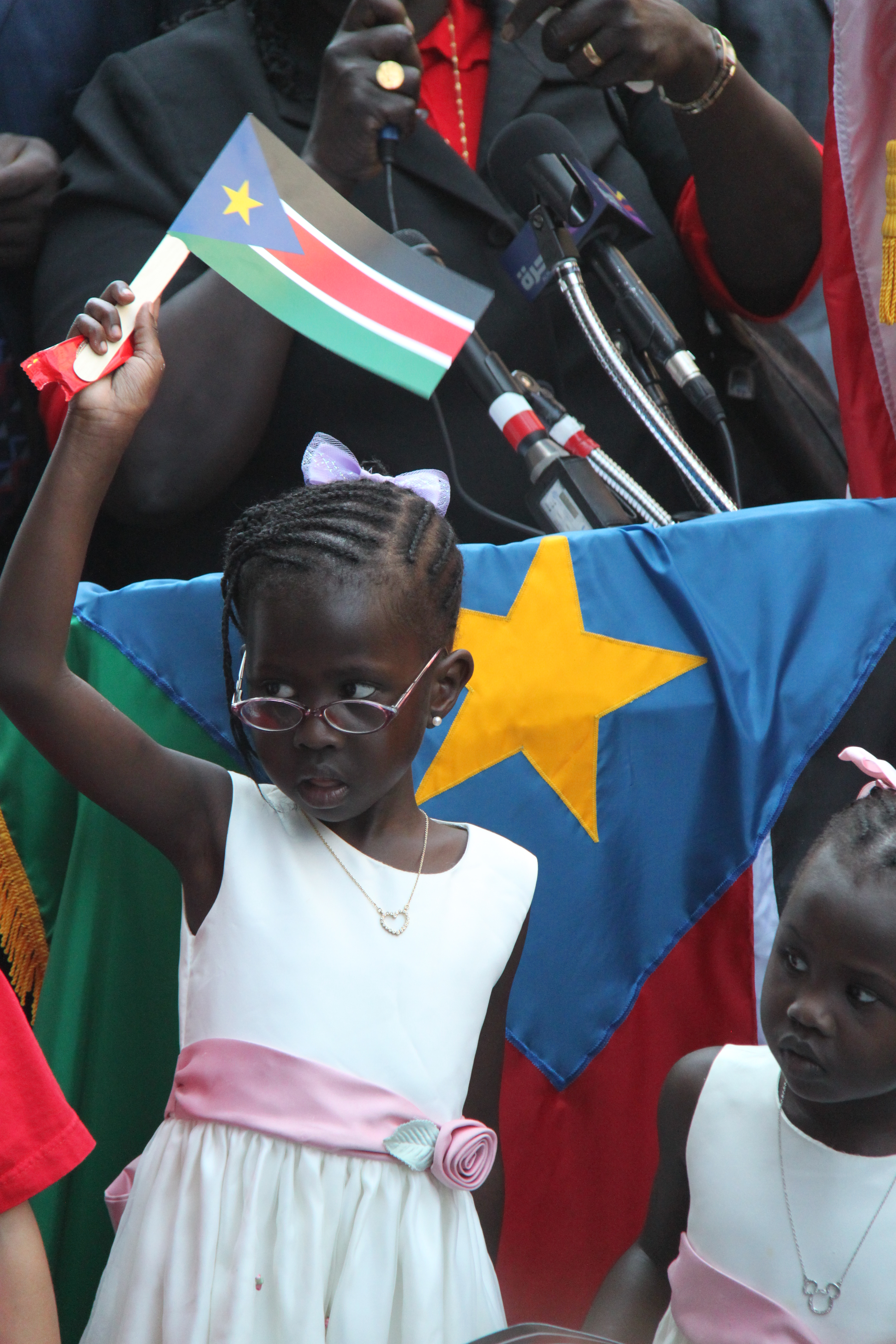 Flag raising ceremony in Washington D.C. on South Sudan's independence day. Jonathan Morgenstein/USAID. Learn more about USAID's work in South Sudan on our website